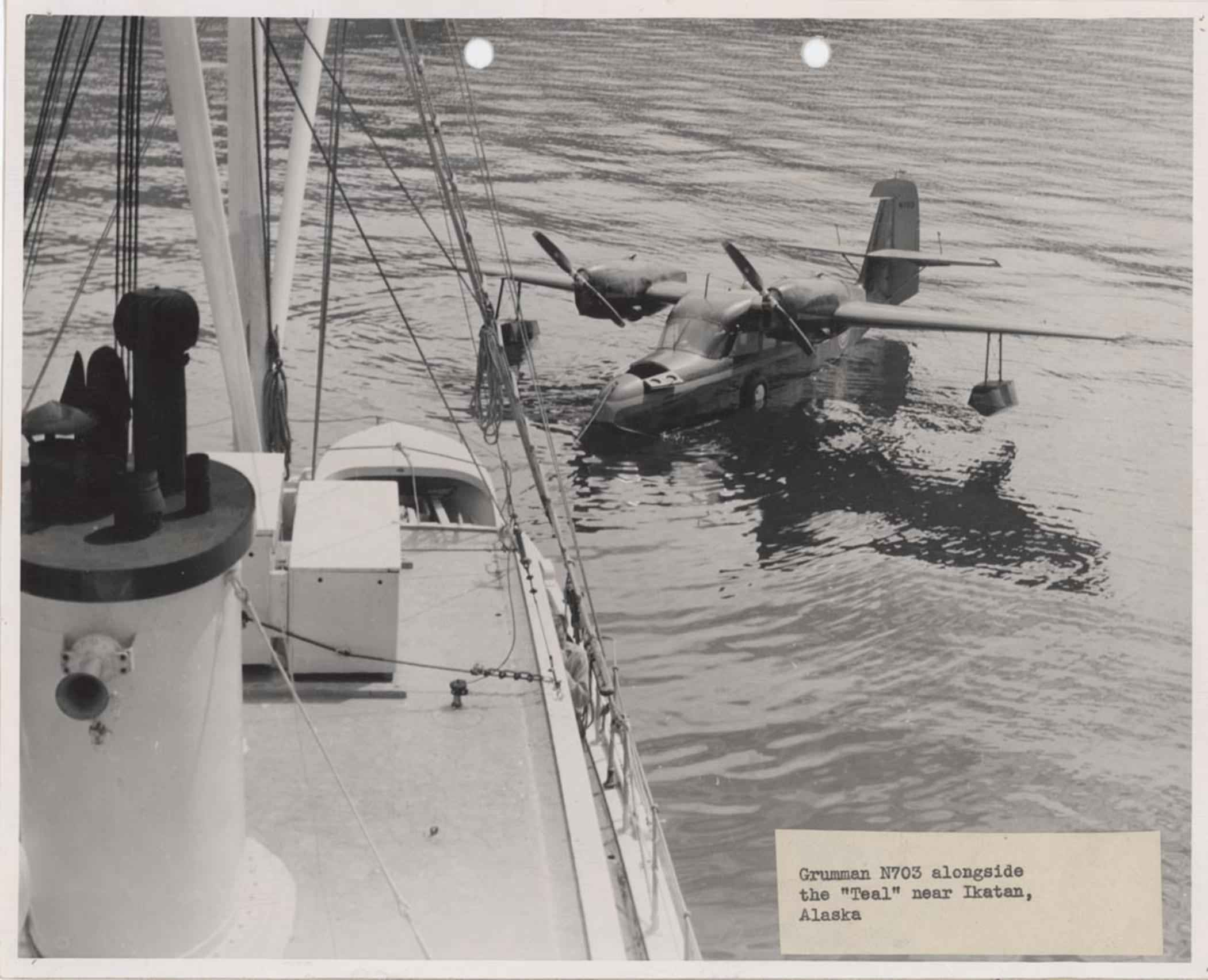 Image title: Grumman n703 aircraft alongside the teal ship vintage picture Image from Public domain images website